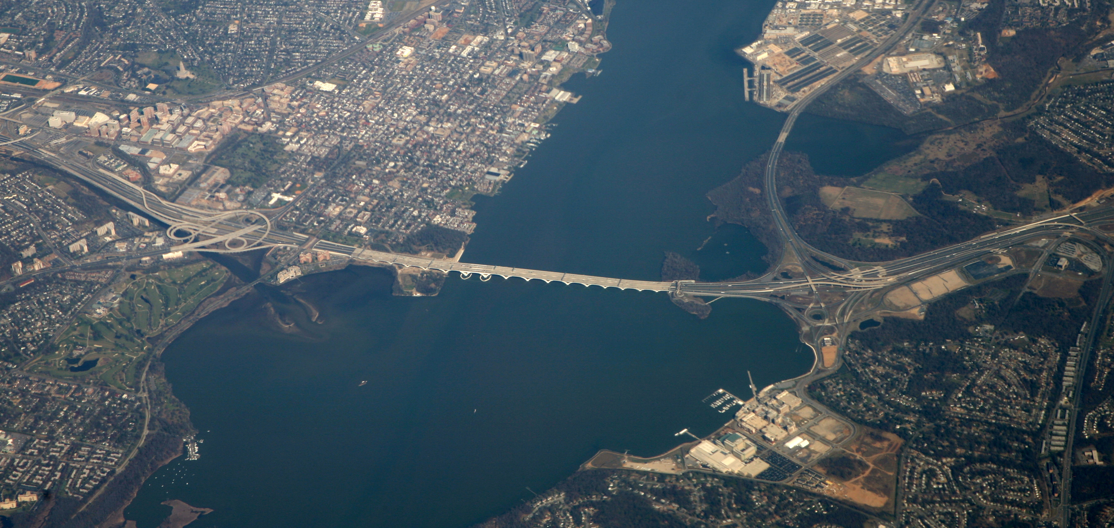 Woodrow Wilson Memorial Bridge, on the Capital Beltway, aka Interstate 95 and 495. Alexandria, Virginia is seen at the upper left, and the Blue Plains Wastewater Treatment Plant is at the upper right.